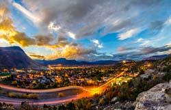 Durango, Colorado